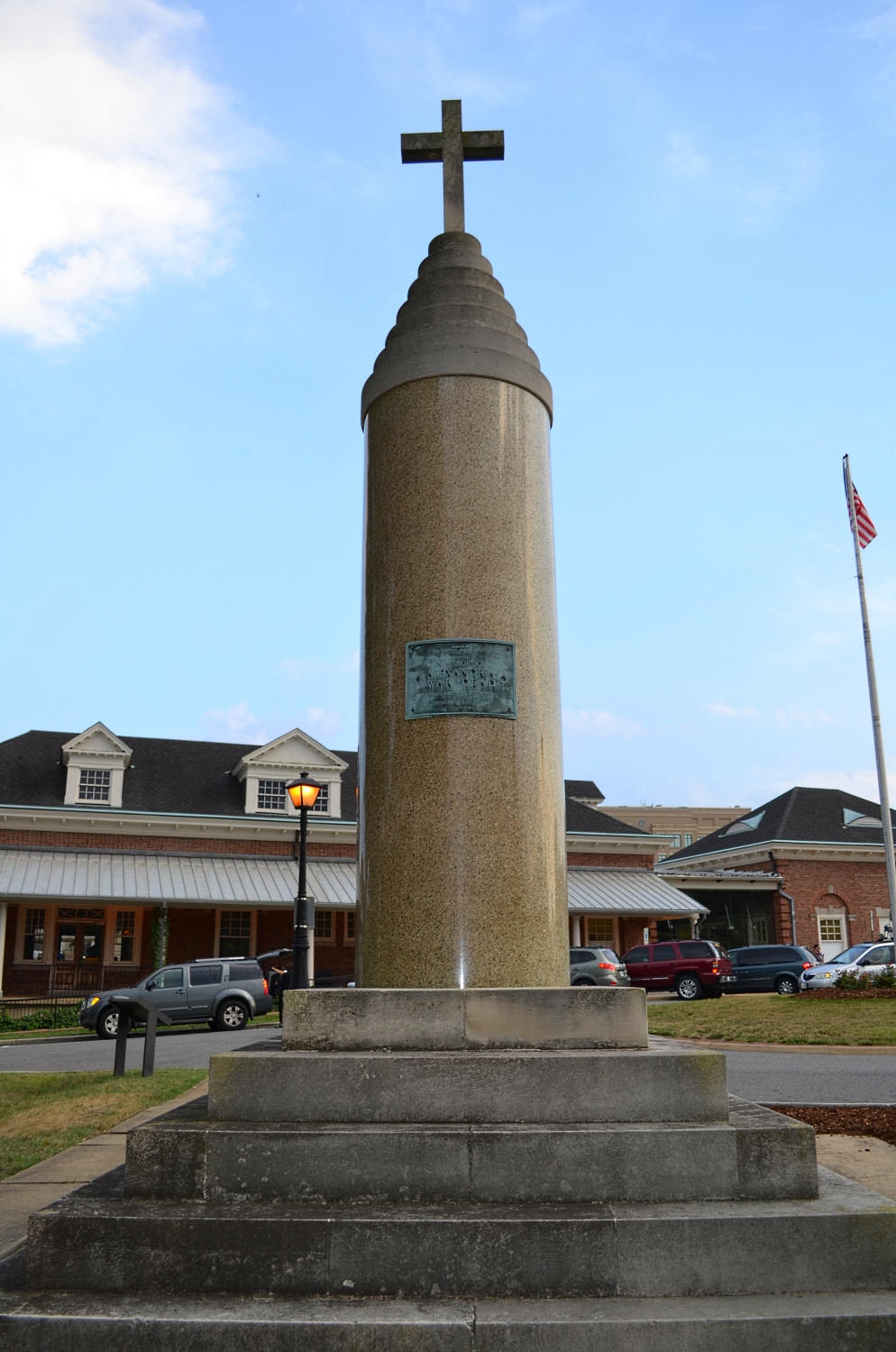 Front view of the World War I War Dead memorial in Alexandria, Virginia. This memorial is in front of the Amtrak Train station near the King Street Metro station. In 1910, Freemasons in the United States created the George Washington Masonic National Memorial Association (GWNMMA) to construct a memorial to George Washington somewhere in Alexandria, Virginia. A site atop Shooter's Hill was chosen, and ground for the massive memorial building and tower was broken at noon on June 5, 1922. Laying of the memorial's cornerstone occurred on November 1, 1923. By February 1924, the foundation was complete. To support the tower eight massive granite columns were placed on the floor of the first story. The floor of the second story was built atop them, and eight more massive granite columns placed above the first story columns. The roof of the second floor was supported by this second set of columns. The tower above rested on these second-floor columns. In December 1924, the installation of eight green marble columns (each weighing 11 to 18 tons) occurred on the first floor. Each column was 18 feet (5.5 m) high and 4.5 feet (1.4 m) in diameter, and arrived at Alexandria's Union Station by train from Redstone, New Hampshire. It was provided by the Maine & New Hampshire Granite Corp. One columnar section was damaged, and given to the Ladies Auxiliary of the Veterans of Foreign Wars (VFW). The VFW turned it into a memorial to American war dead, and erected it in front of Alexandria's Union Station in 1942.